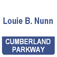 Louie B. Nunn Cumberland Parkway Shield